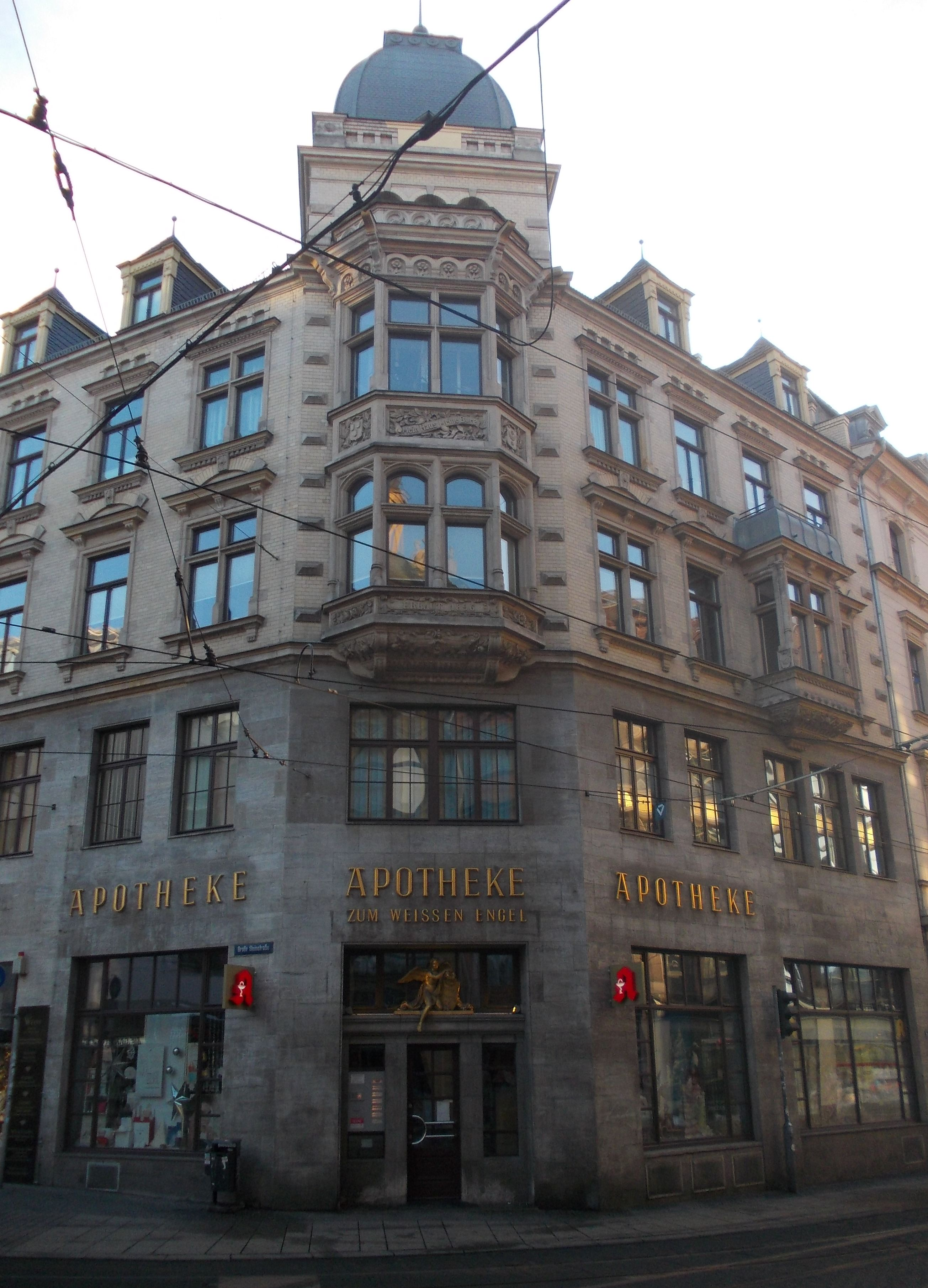 The White Angel pharmacy in Halle (Saale), Saxony-Anhalt